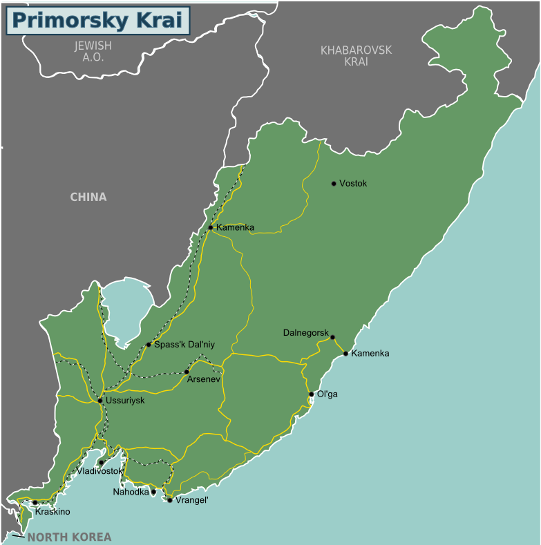 Map of Primorsky Krai. Map of Primorsky krai, SVG version at :Image:Primorsky-krai.svg, Map of: Primorsky Krai¤ Please take this map - it is correctImage